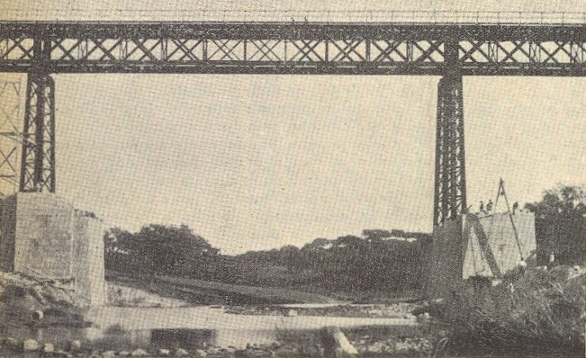 Old Quinta Nova Railway Bridge, in the Alentejo Railway, in Portugal. The pillars in the foreground belong to a new bridge in masonry, then in construction, that would replace the old one. This photograph was taken in April 1933. This photograph was originally published in the Gazeta dos Caminhos de Ferro No. 1125, of the 1st November 1934, and scanned by the Hemeroteca Municipal de Lisboa.